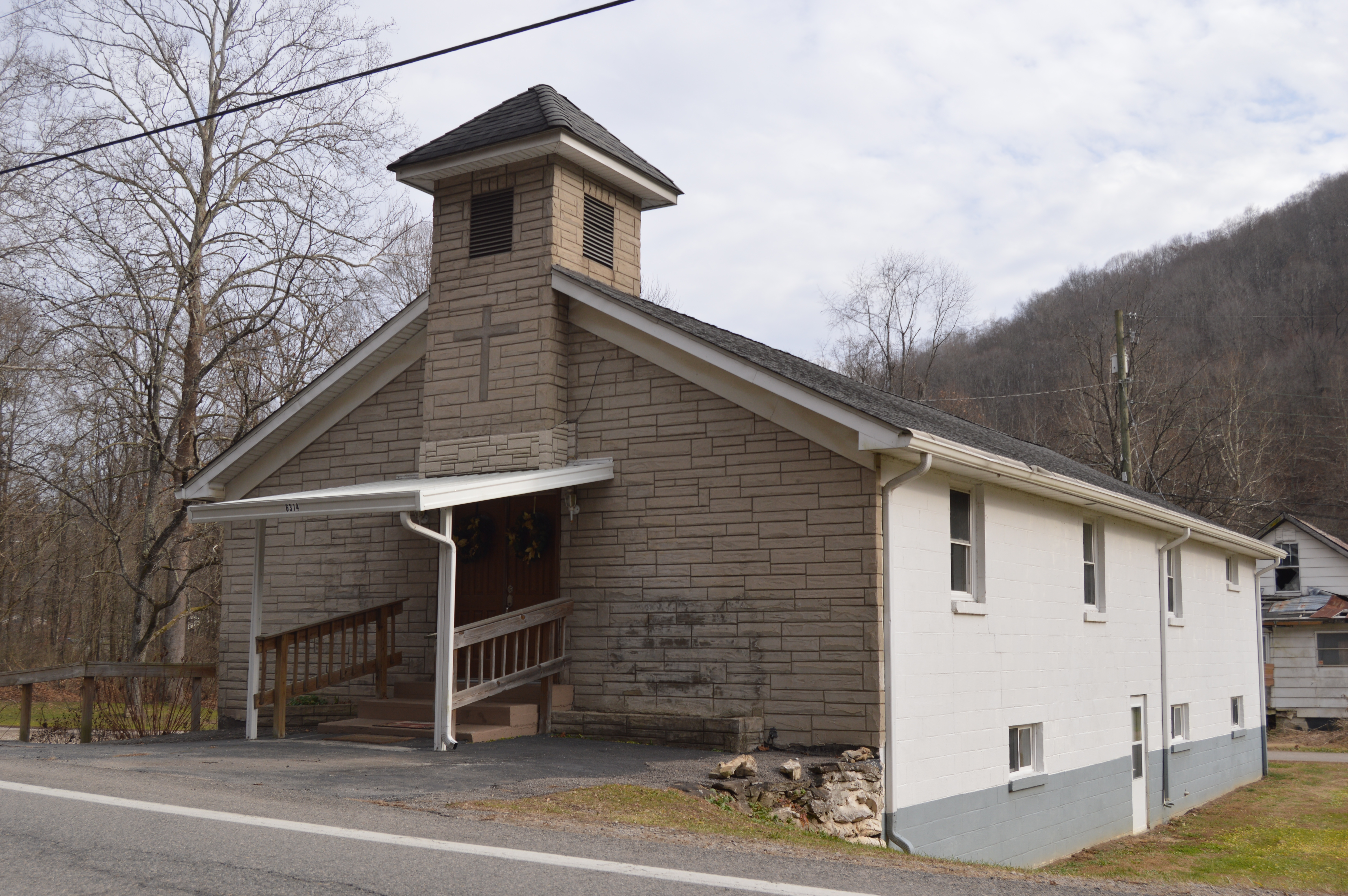 Front and western side of the Quinland Freewill Baptist Church, located on West Virginia Route 85 at Quinland in Boone County, West Virginia, United States.